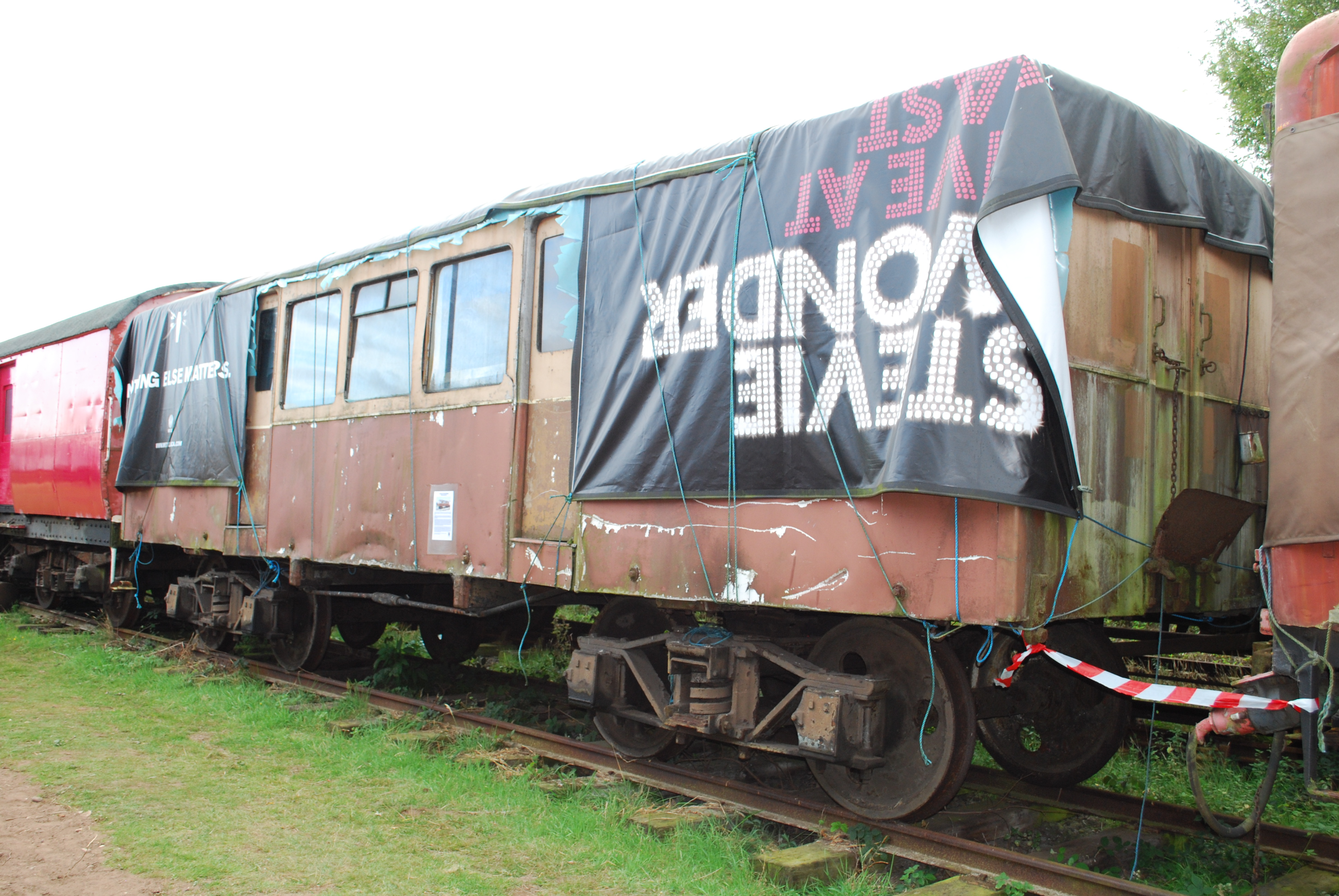 Liverpool Overhead Railway 630 v dc 3rd rail car No.7 (from a 3-car e.m.u.) built by Brown Marshalls in 1898 and rebuilt by the L.O.R. in 1947. At the Electric Railway Museum, Coventry, 9/11.